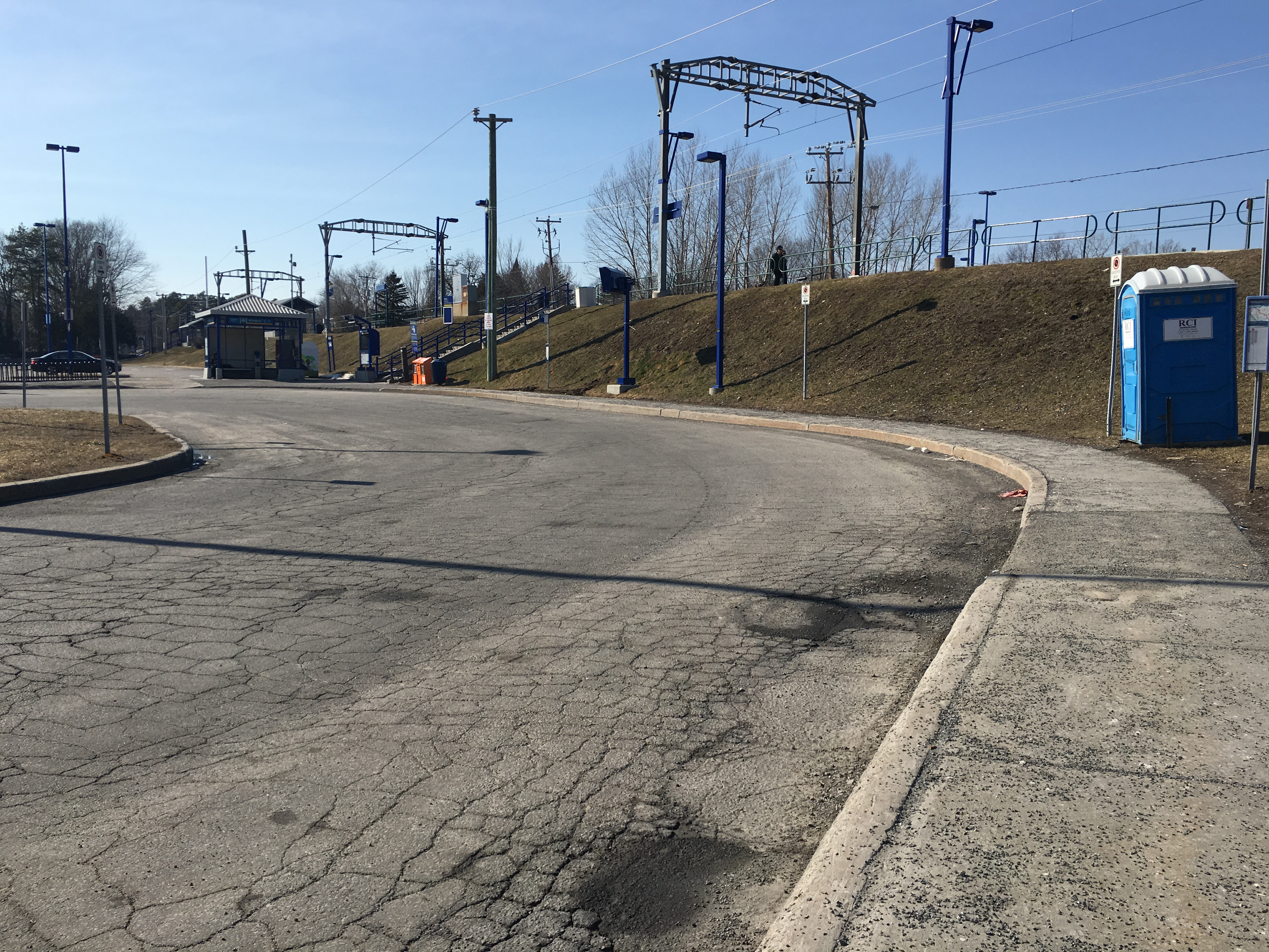 Sainte-Dorothée commuter train station and its bus terminal